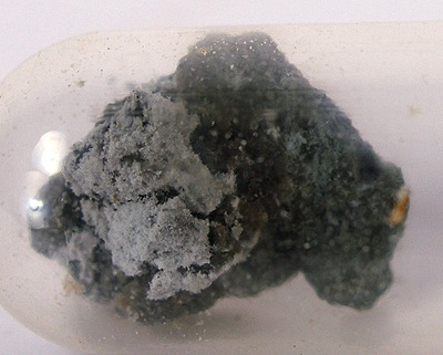 Vajdakite Locality: Geschieber vein of the Svornost Mine, Jachymov, N.W. Bohemia, Czech Republic (TYPE LOCALITY) Size: thumbnail, under 1 cm Vajdakite (META-TYPE MATERIAL) Here is a VERY RARE specimen of the cotype material for Vajdakite (measuring a few mm in size), named for Josef Vajdak, American mineral collector and dealer of rare minerals. When I bought his Pribram collection in 2006, he also gave me (correction..."gifted" me and yet also added to the sales price) one of his few specimens of material from the little find which provided the type specimen. If I recall correctly, he said that they all came off the same piece of rock, even (which would make this Co-Type, though I cannot say for sure now). But it is from the author, from the same pocket, and is at least metatype material. This is, thus, a micro, but eye visible, and sealed in a plastic tube for safety. I believe he charged me $450 at the time, for the privilege of owning this piece.